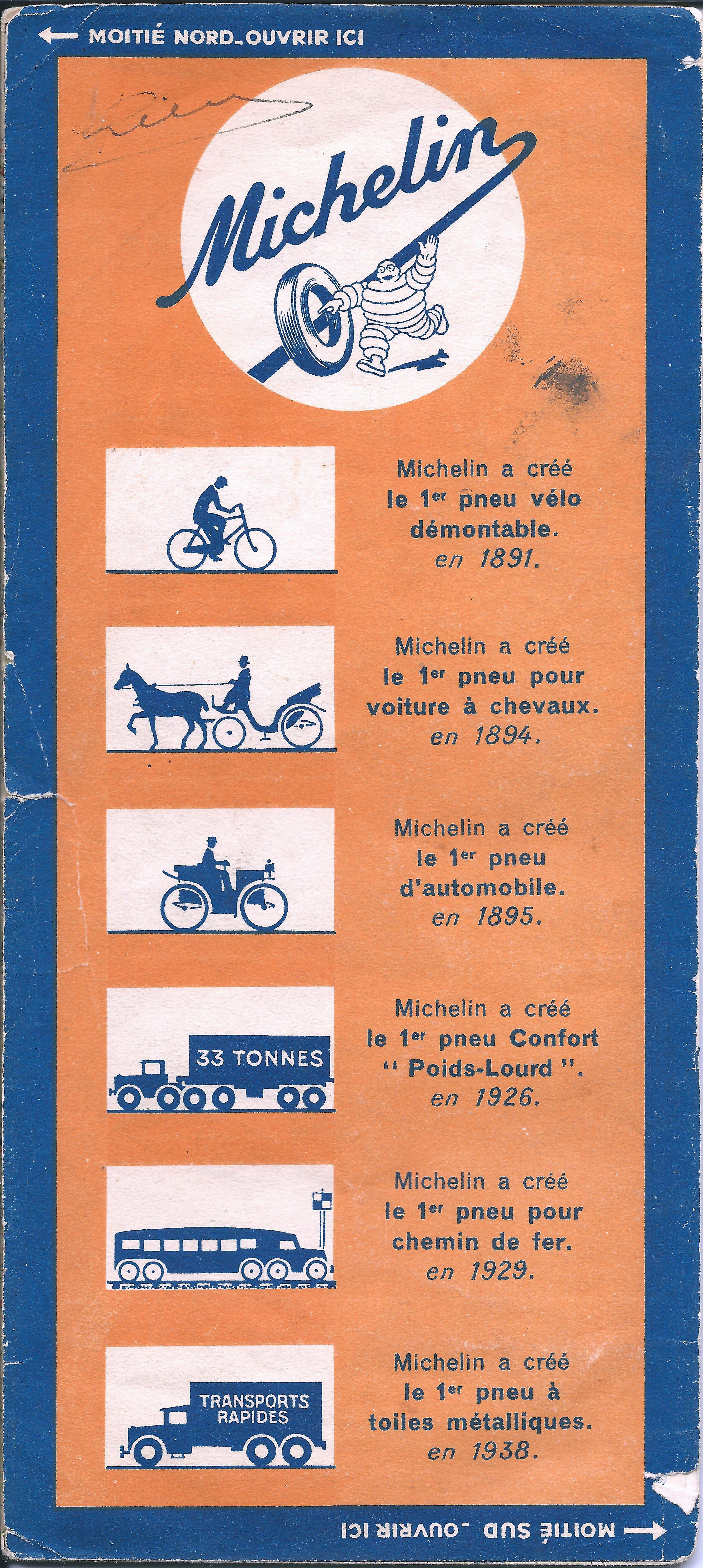 The backside of the Michelin maps in 1940, where the Michelin company proudly annonce their first.